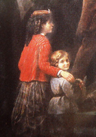 Le_Depart_1868_by Charles_Louis_de_Fredy_de_Coubertin. Detail of Image:Le Depart 1868 Charles Louis de Fredy de Coubertin.jpg